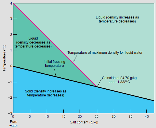 Diagram showing realtion between temperature and salinity for sea water density maximum and sea water freezing temperature.